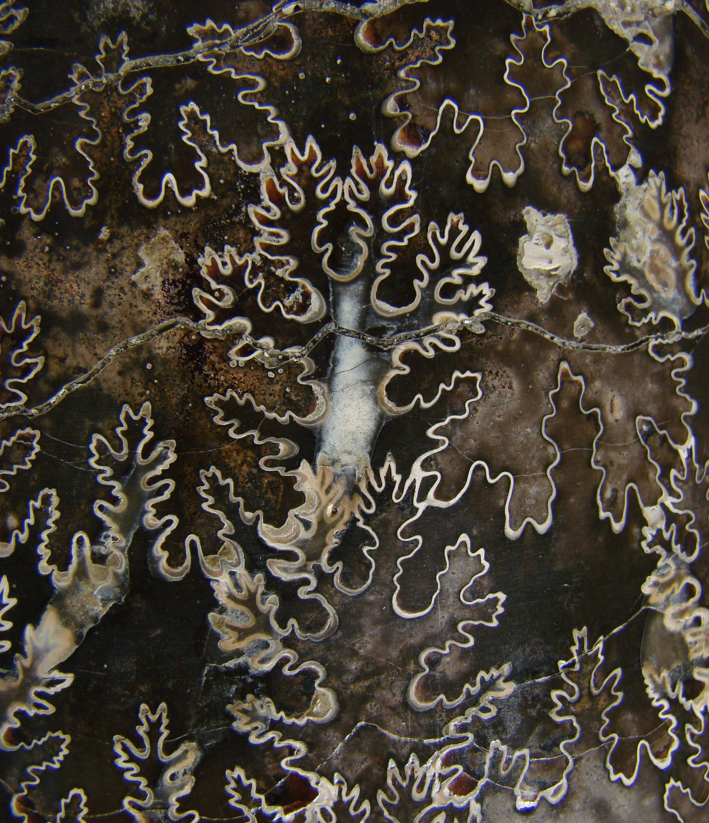 Detail of a polished ammonite, real height 4 cm.